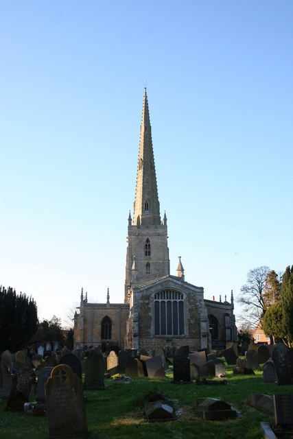 St.Mary's church Grand Perpendicular church with a tower and spire rising to a height of 207 feet